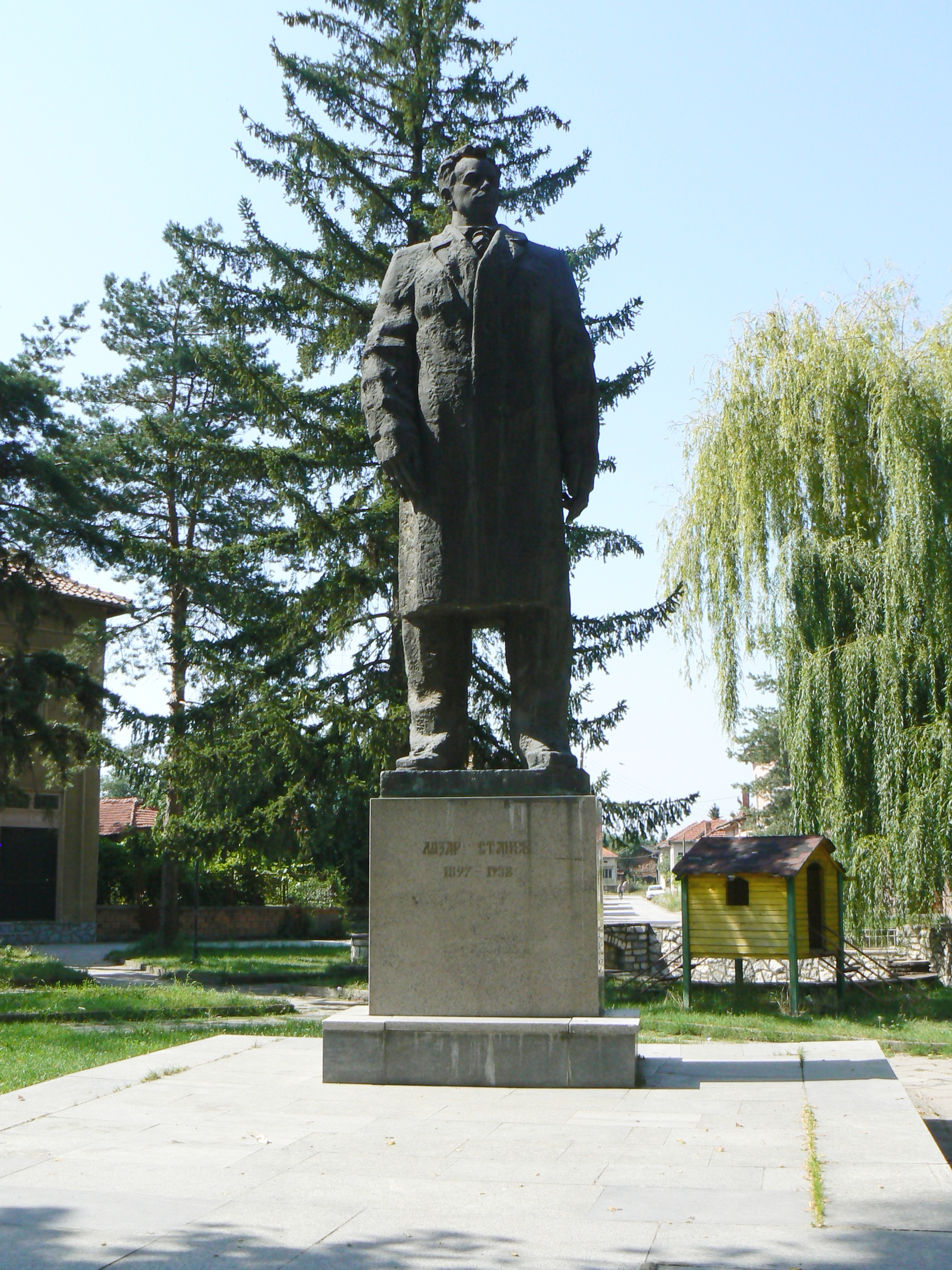 Monument of Lazar Stanev in village Toros, Bulgaria